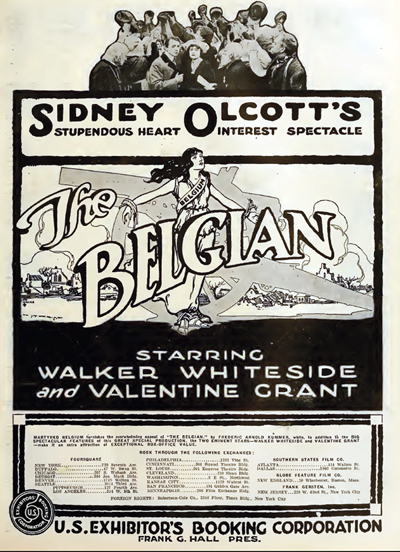 Advertising of The Belgian (1918) published in The Moving Picture World, January 19, 1918, with Walker Whiteside and Valentine Grant (center at top).